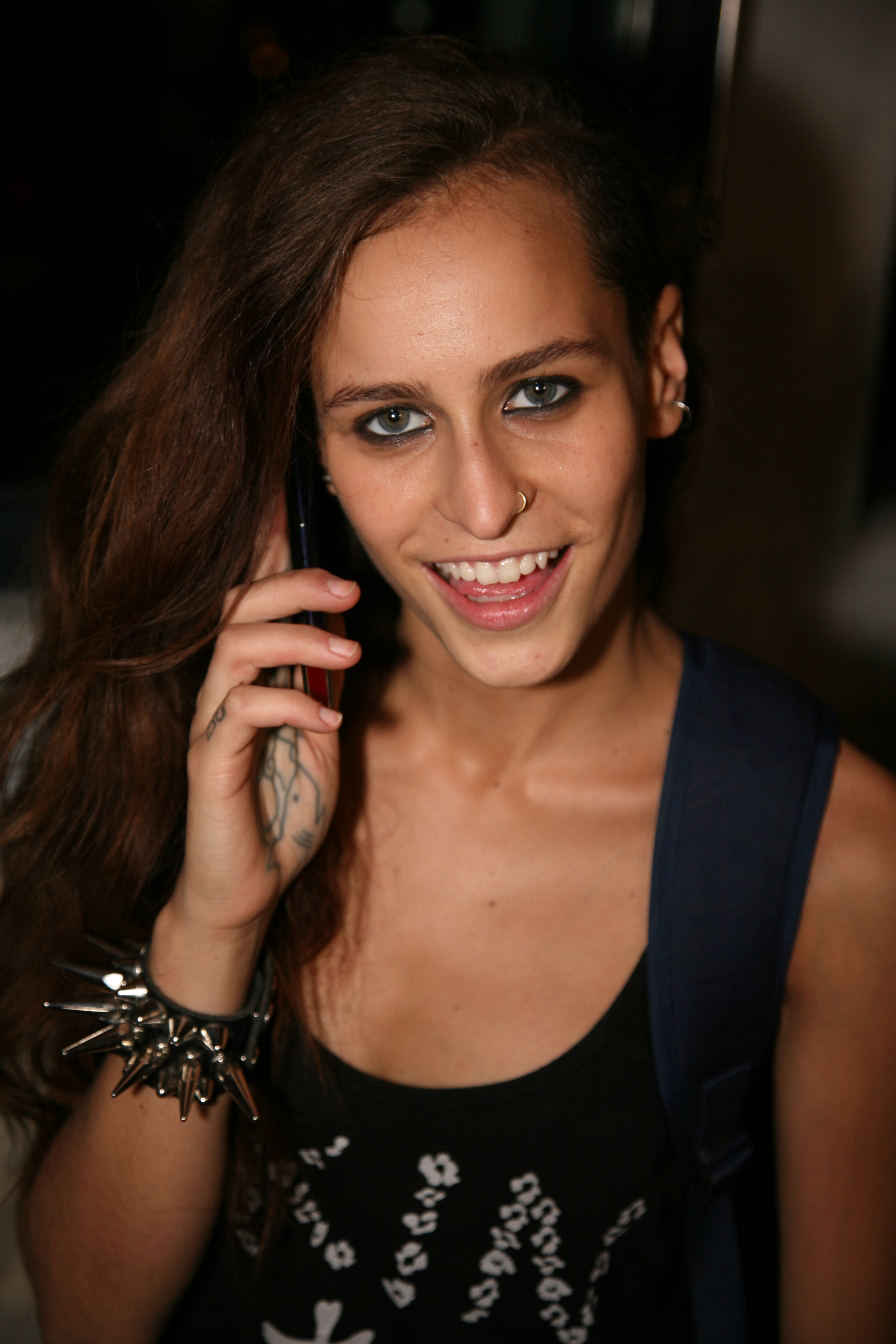 Alice Dellal poses with an LG phone at the LG sponsored Twenty8Twelve Spring/Summer 2010 show during London Fashion Week, September 2009.